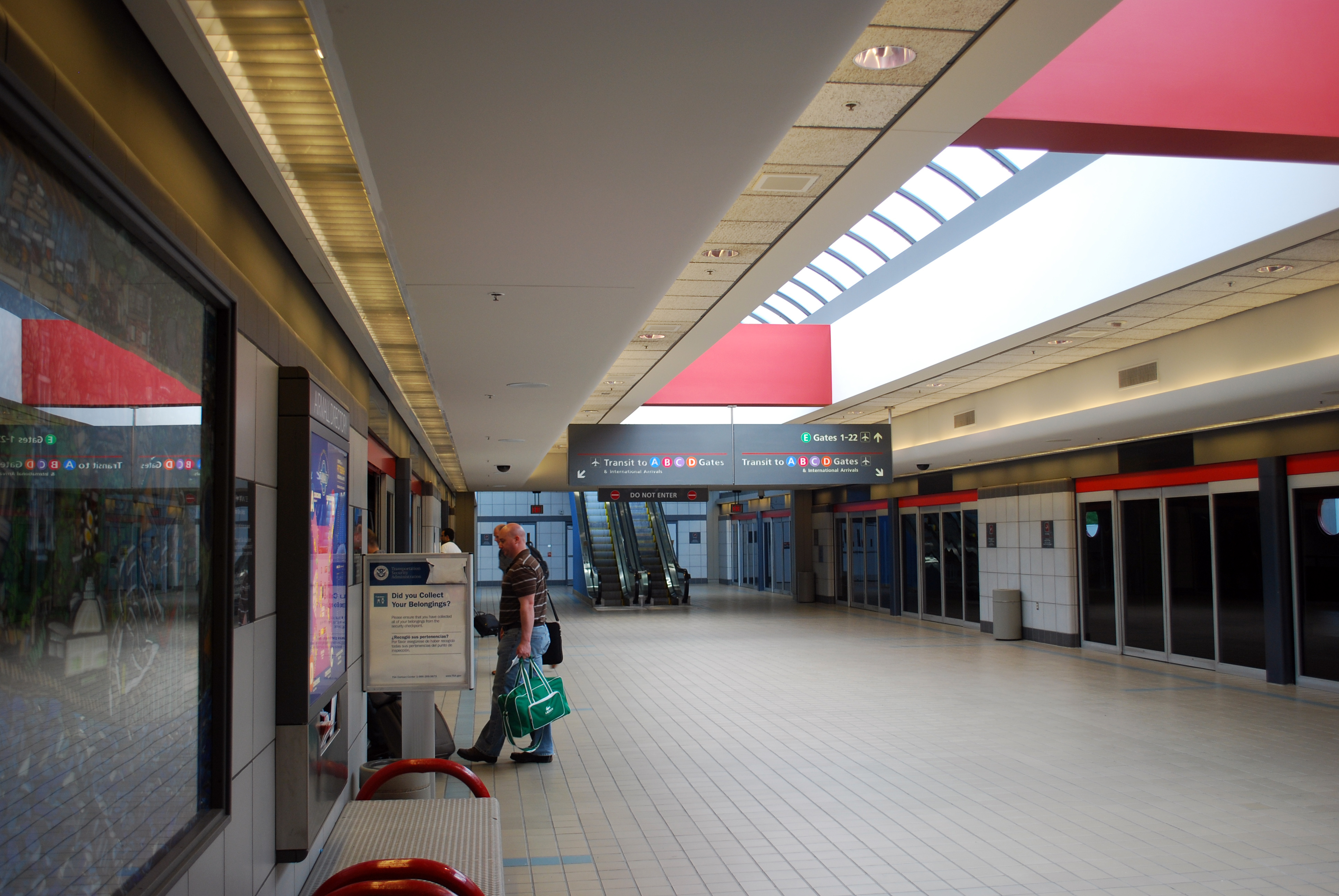 The Landside Terminal station of the Pittsburgh International Airport People Movers at Pittsburgh International Airport.